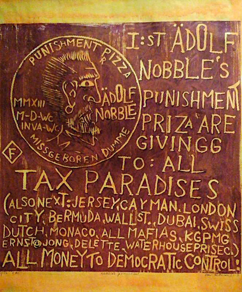 Teos 1 aka Noble by Olavi Fellman